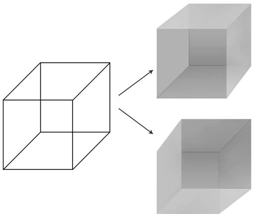 Image from Christof Koch, The Quest for Consciousness: A Neurobiological Approach. Roberts: Denver, Colorado, 2004.